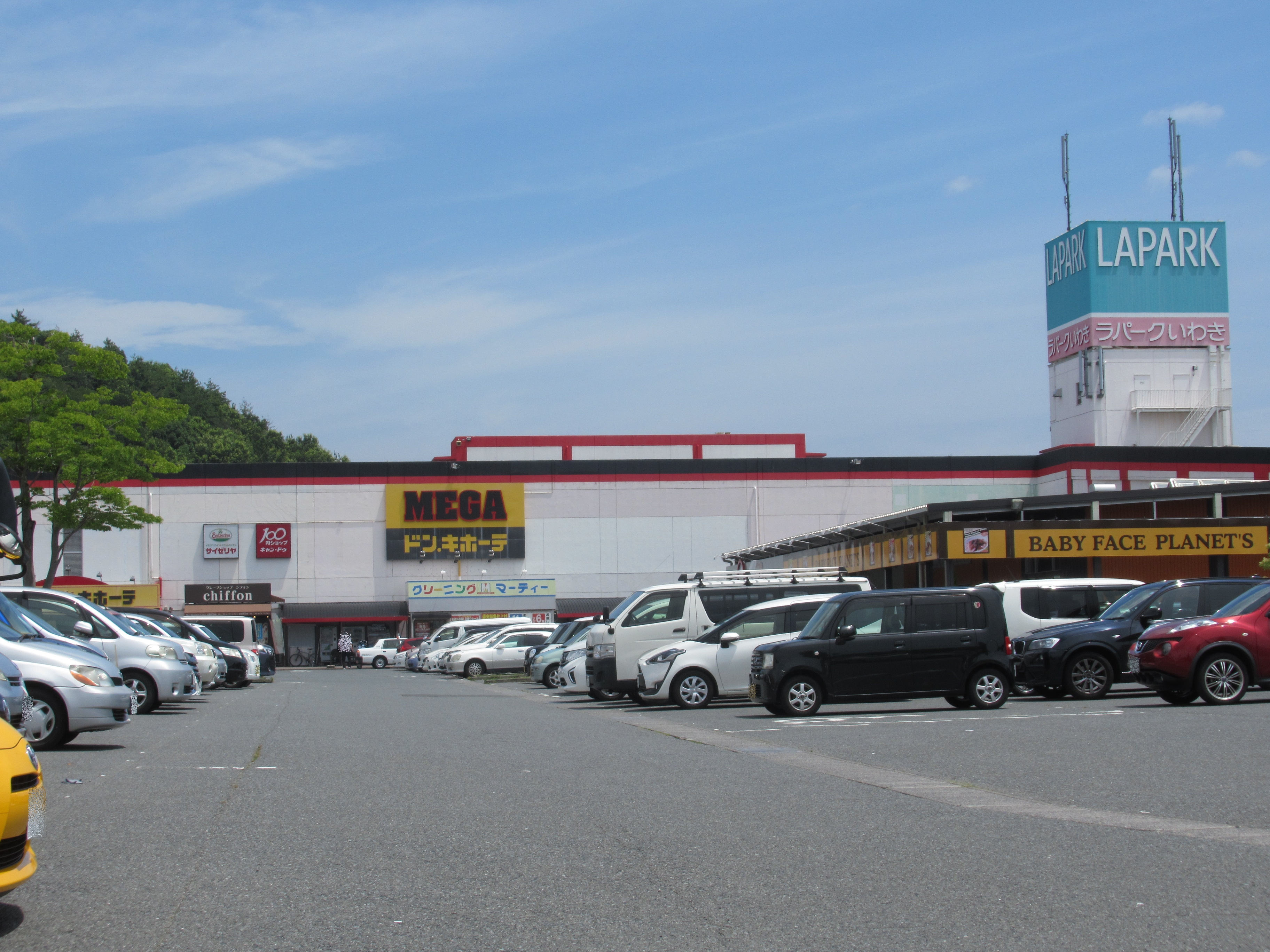 Shot on July 13, 2018